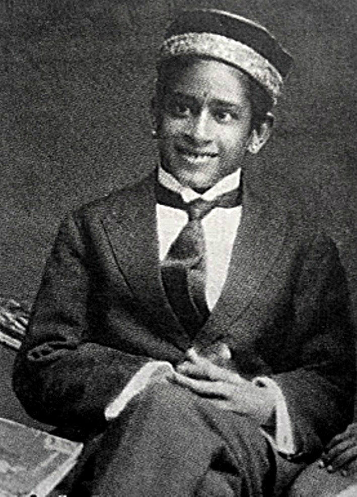 The photo of the Travancore King Sree Chithira Thirunal, taken in 1924.